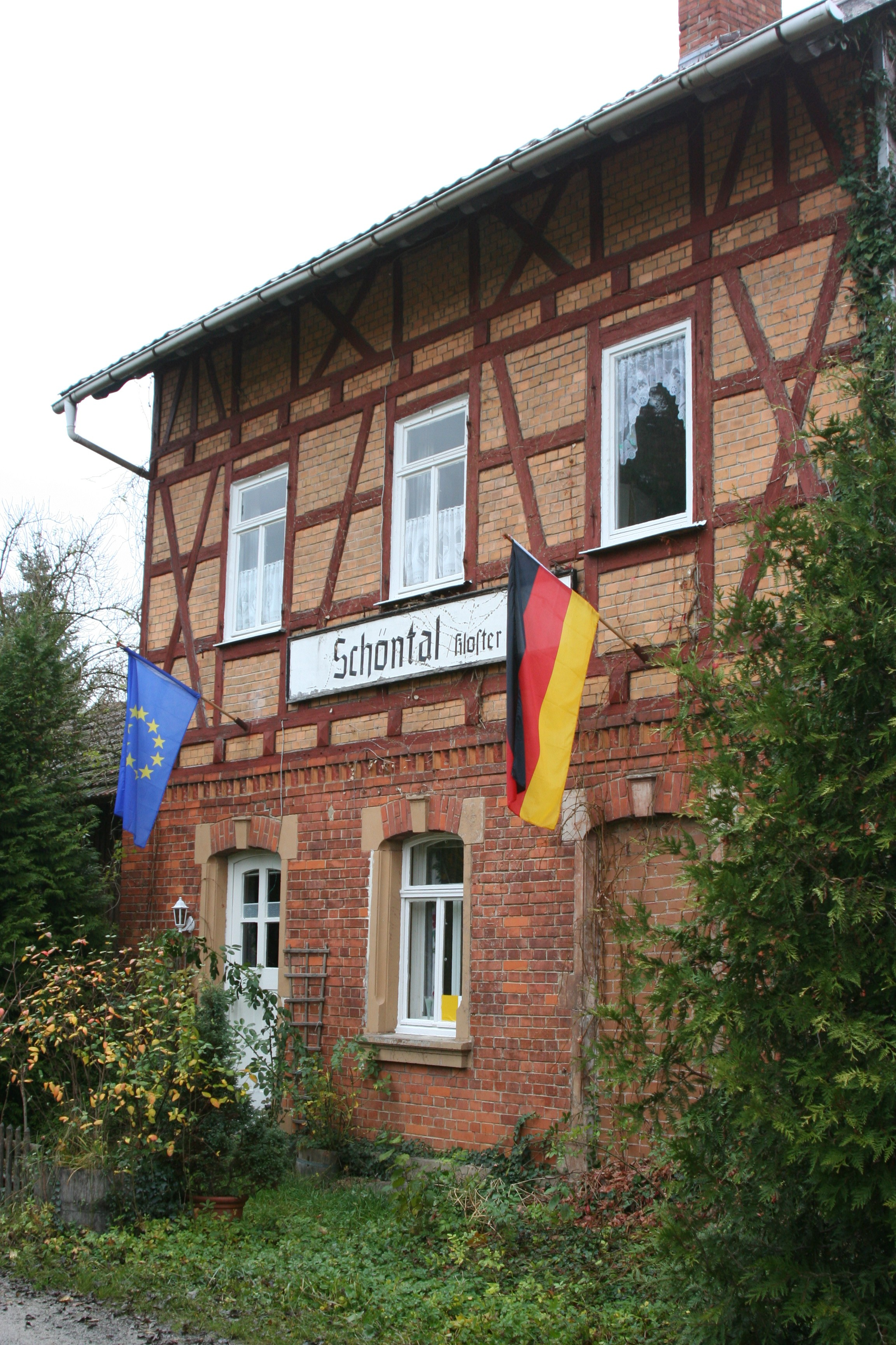 The former Schöntal train station at the Jagsttalbahn